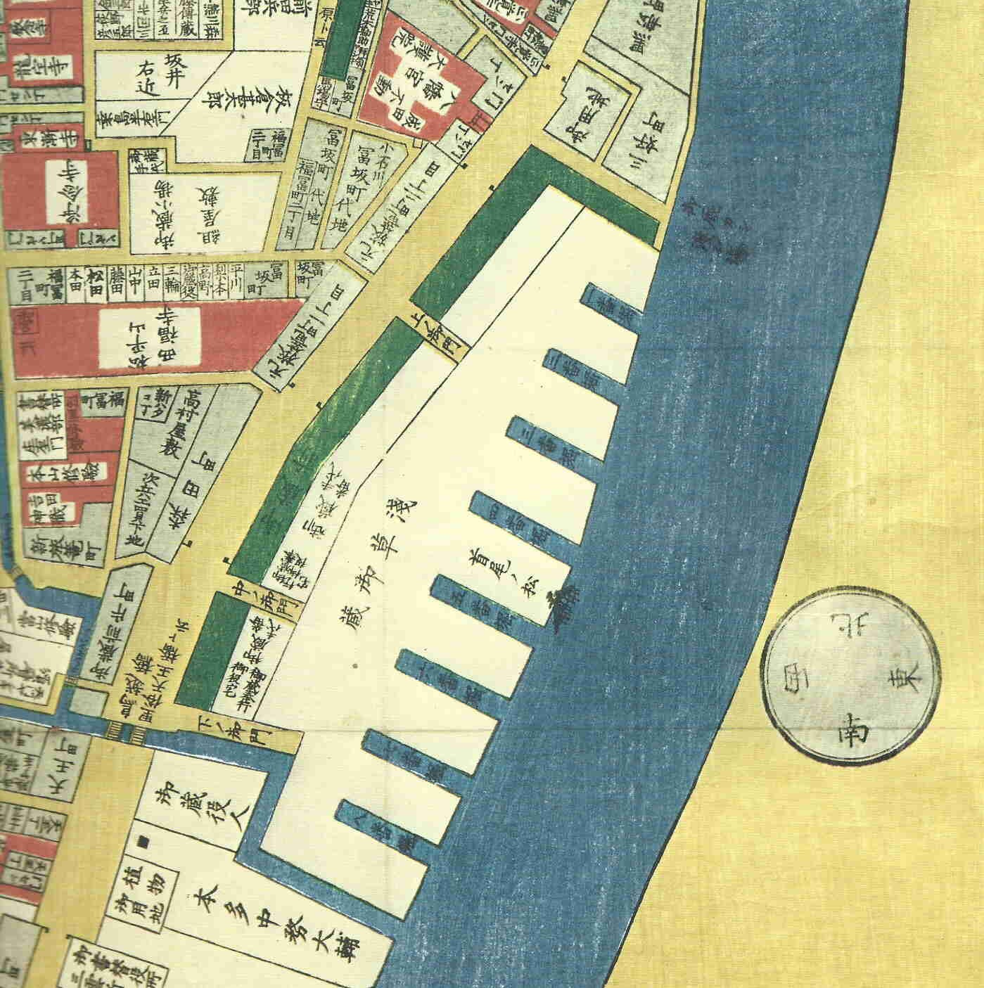 Asakusa Okura, detail from old map